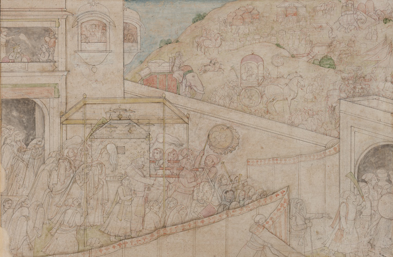 Damayanti leaving for Nishadha in a palanquin, after her wedding to Nala, the king of Nishadha Kindom. Pahari, Guler School, 1775-1800, India. The tale of Nala-Damayanti is part of the epic - The Mahabharata. Ink and color on paper.